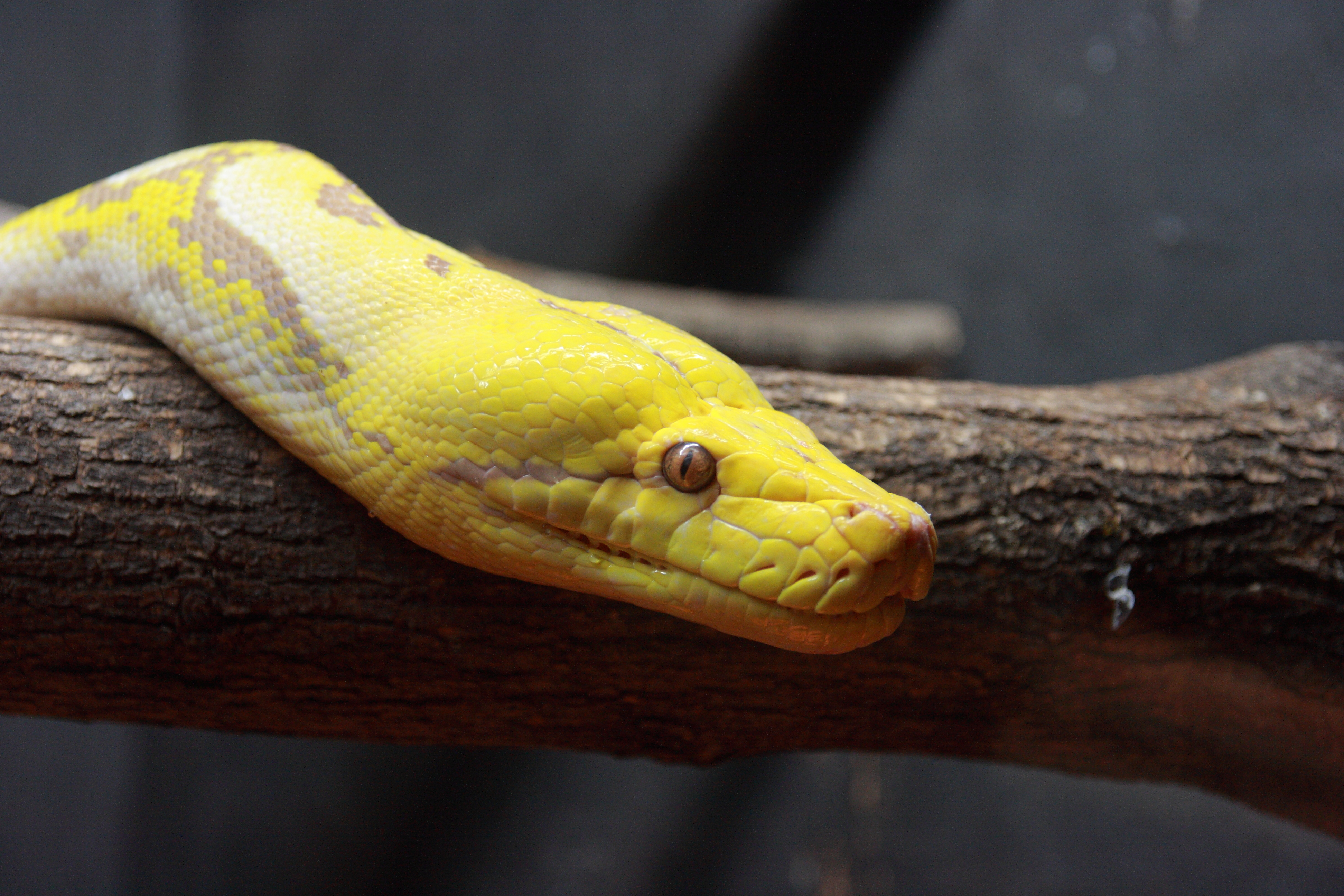 A reticulated python at Little Ray's Reptile Zoo in Ottawa, Ontario.